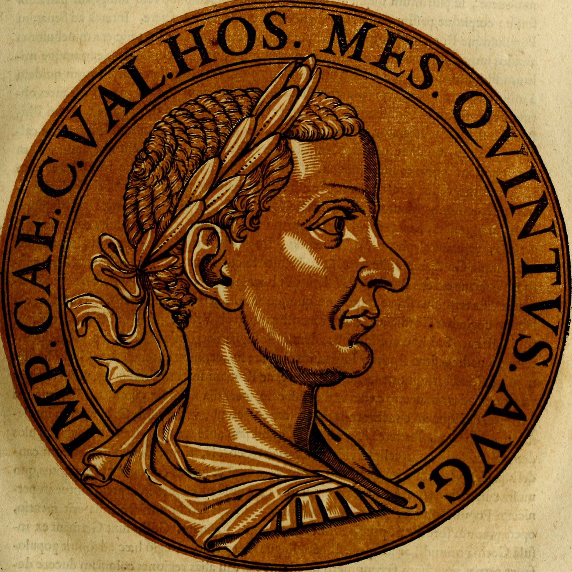 Title: Icones imperatorvm romanorvm, ex priscis numismatibus ad viuum delineatae, & breui narratione historicâ Year: 1645 (1640s) Authors: Goltzius, Hubert, 1526-1583 Gevaerts, Jean-Gaspard, 1593-1666 Rubens, Peter Paul, 1577-1640 Subjects: Emperors Emperors Numismatics, Roman Publisher: Antverpiae, Ex officina plantiniana Balthasaris Moreti Text Appearing Before Image: plu-rimum in his errafle. Aufim illud quoq; aifirmarejquaplurimos nempe errores ex tranflationede Grarco in Latinum, ac defcriptione veterum librorum in nouos irrepfifle.Si quisme in hisculpare ac cotrarius efle velit,nx ille doclis peritifq; fcriptoribus haud paru ridiculus videbitur. xxxvii. 75 Text Appearing After Image: £ta etim feuifllma pedis abftulit,vt vix eius mcmoria,nomenque,ncdum di&unxaliquod pofteritati reli£tum fit. K 2